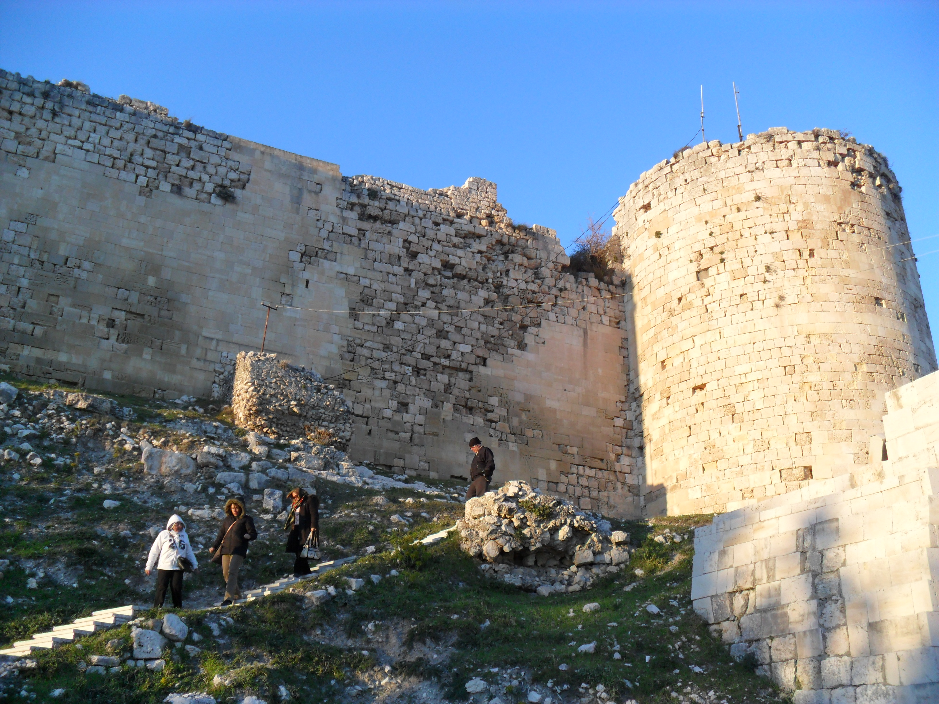 Silifke Castle, Mersin Province, Turkey